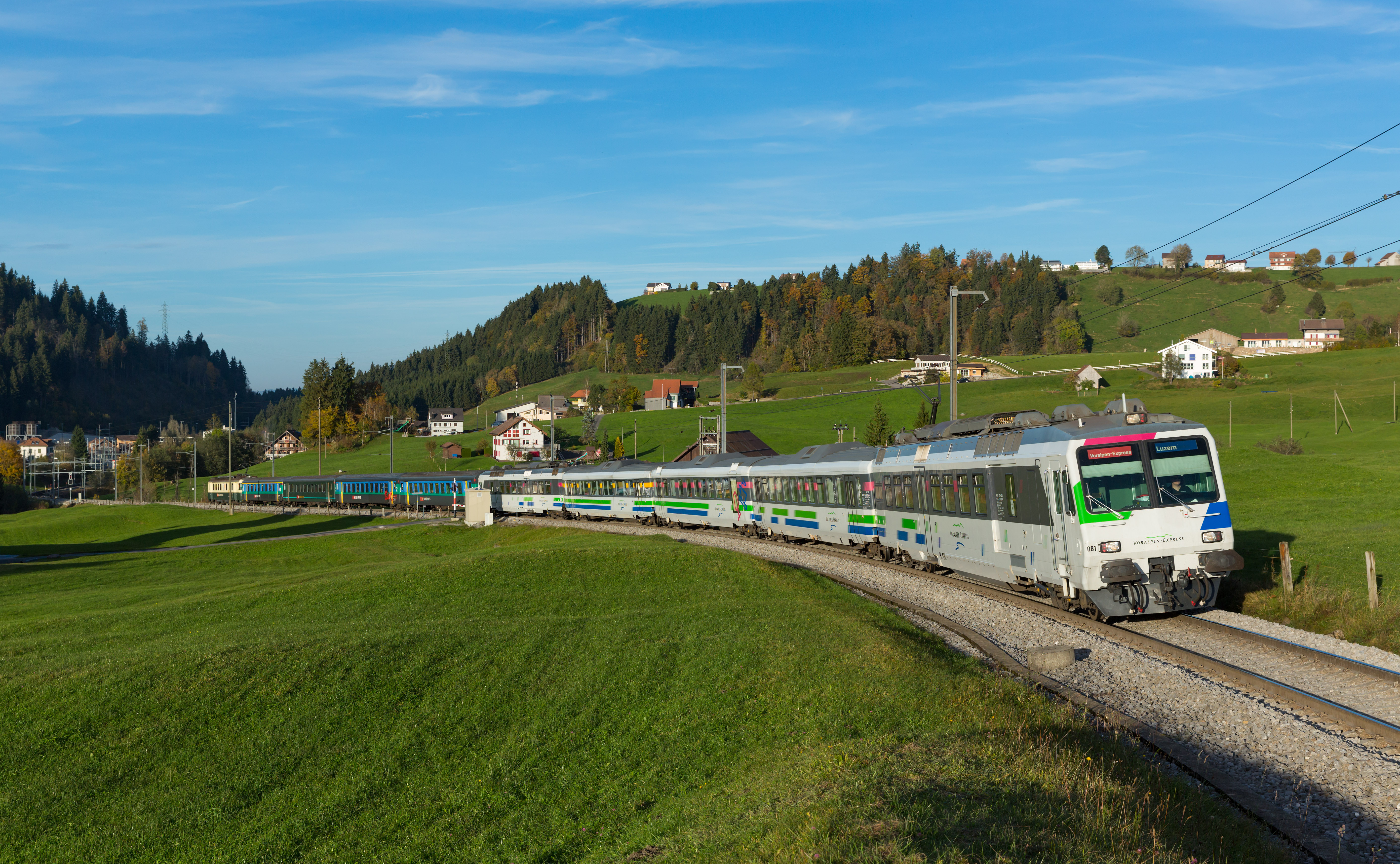 The new Voralpenexpress rolling stock concept includes forming push-pull trains using existing rolling stock. Two of the new consists are made up of two NPZ power heads each and Revvivo coaches in between (three for now, six in the end). This train has additional coaches to handle the exceptional Olma passenger volume, and a BDe 4/4 unit is acting as a bank engine. Biberbrugg, Switzerland.